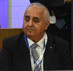 President of the State of Israel, Reuven Rivlin, at the economic seminar held at the Spanish Industrialists' Association. Tuesday, November 7, 2017. Photo Credit: Haim Tzach / GPO.